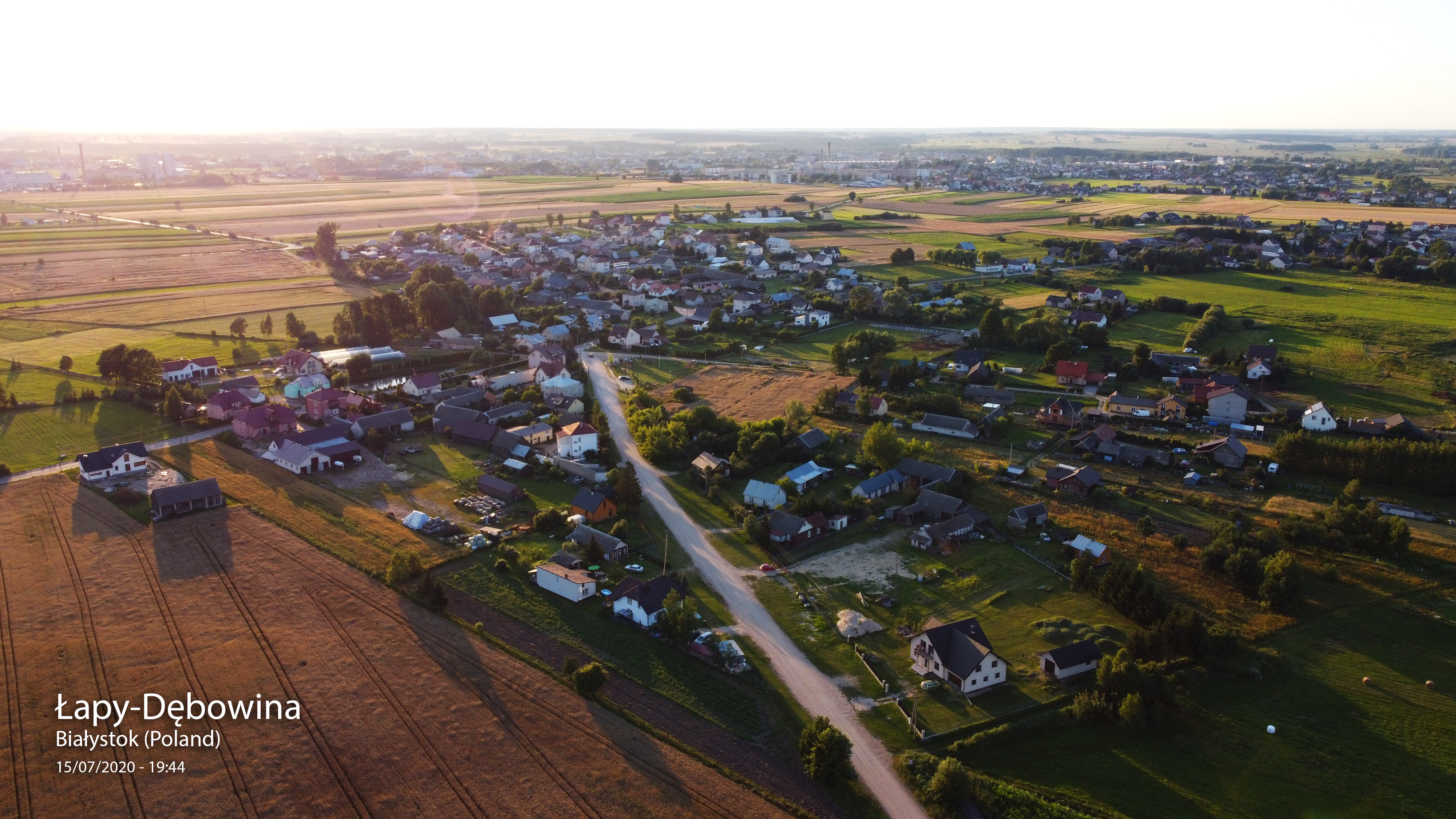 An eyecatching sky vue of Lapy-Debowina.